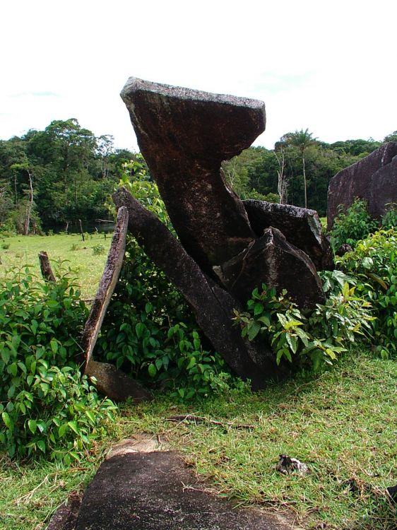 The Calzoene's 'Stonehenge'